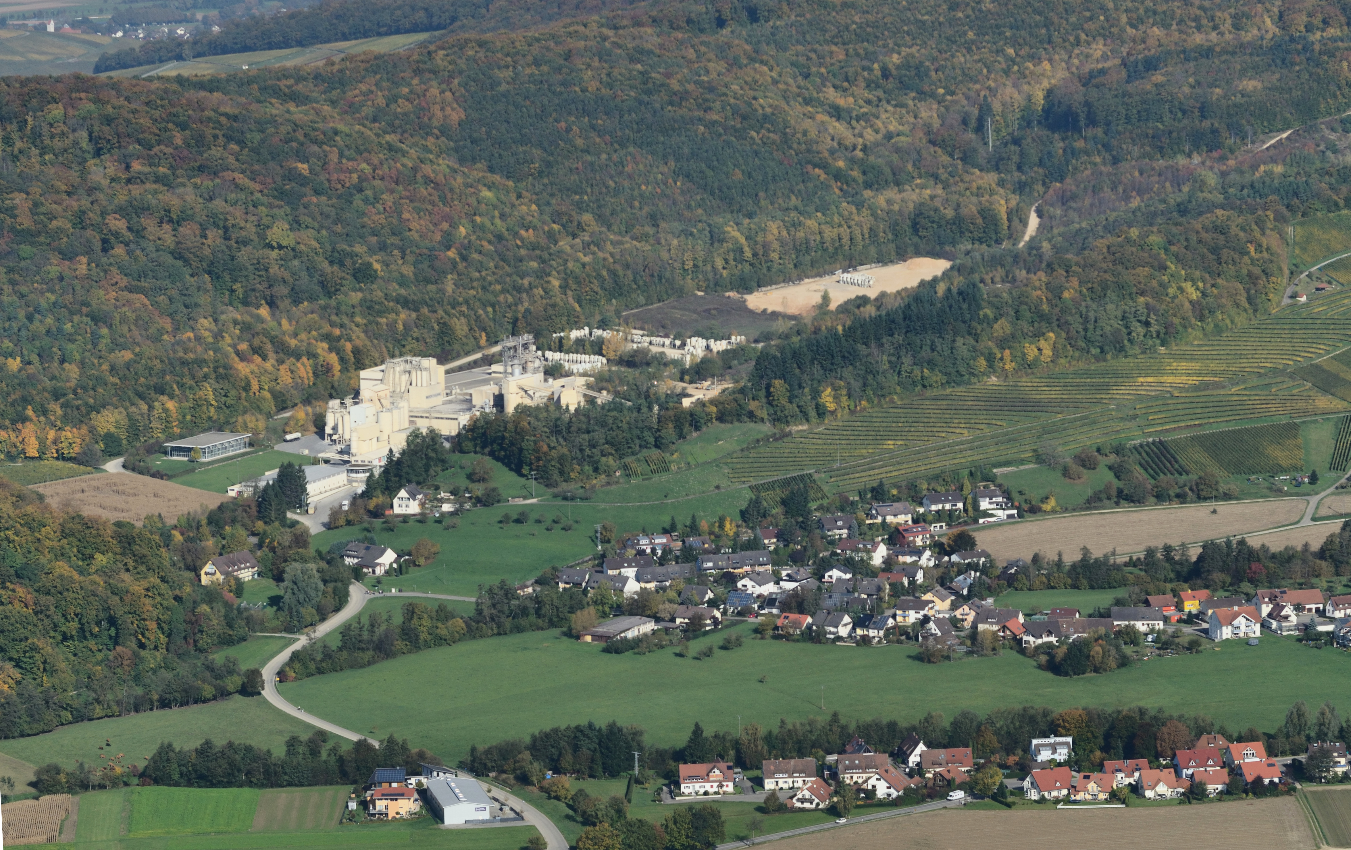 Aerial view at Bollschweil and lime works